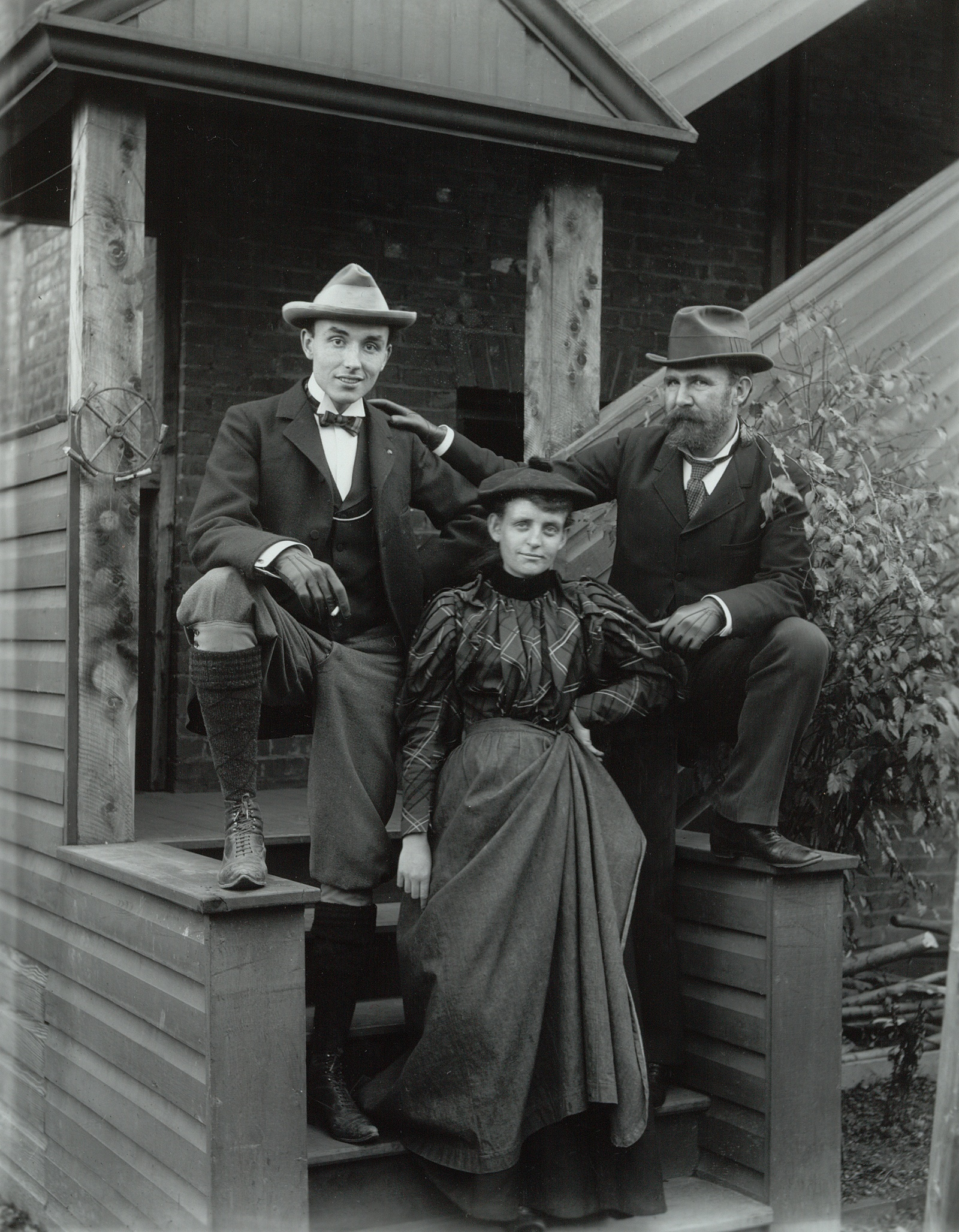 Frances Benjamin Johnston (front), an American female photographer and photojournalist, (with Mills Thompson (left) and Frank Phister (right))